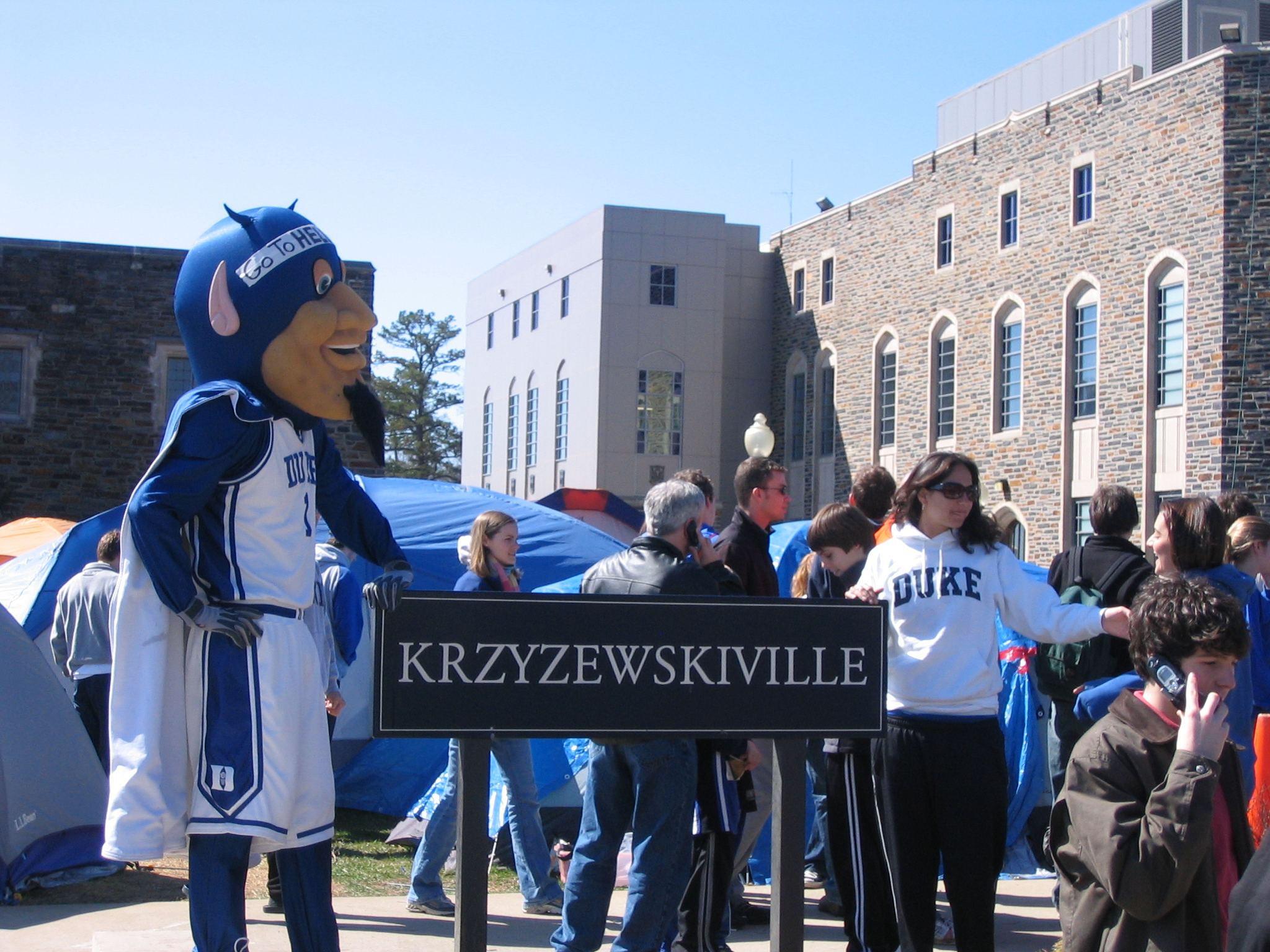 Mascot by K-ville sign at Duke University